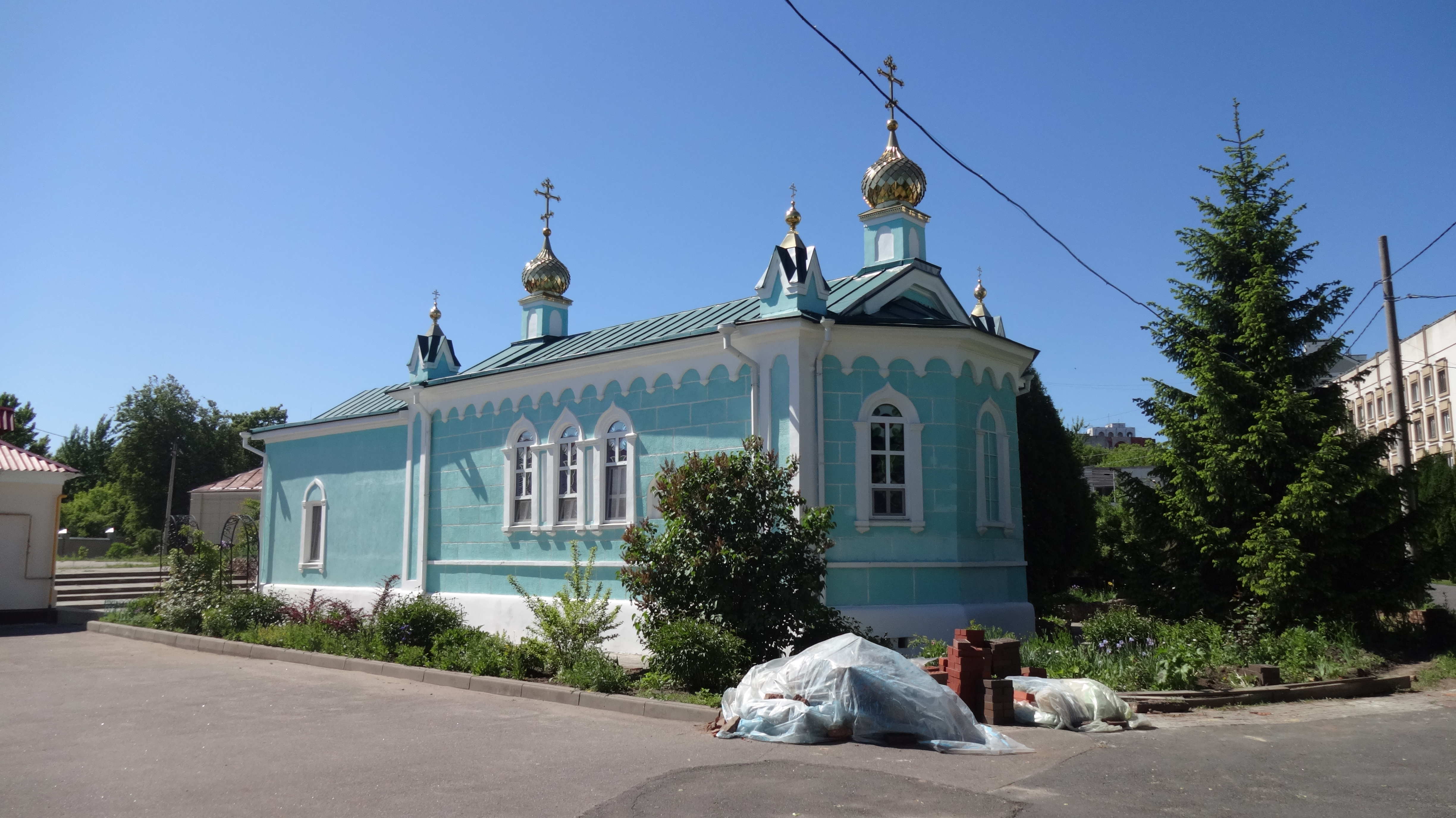 Trinity church (Kochubey's tomb), Uspensky monastery, Oryol.